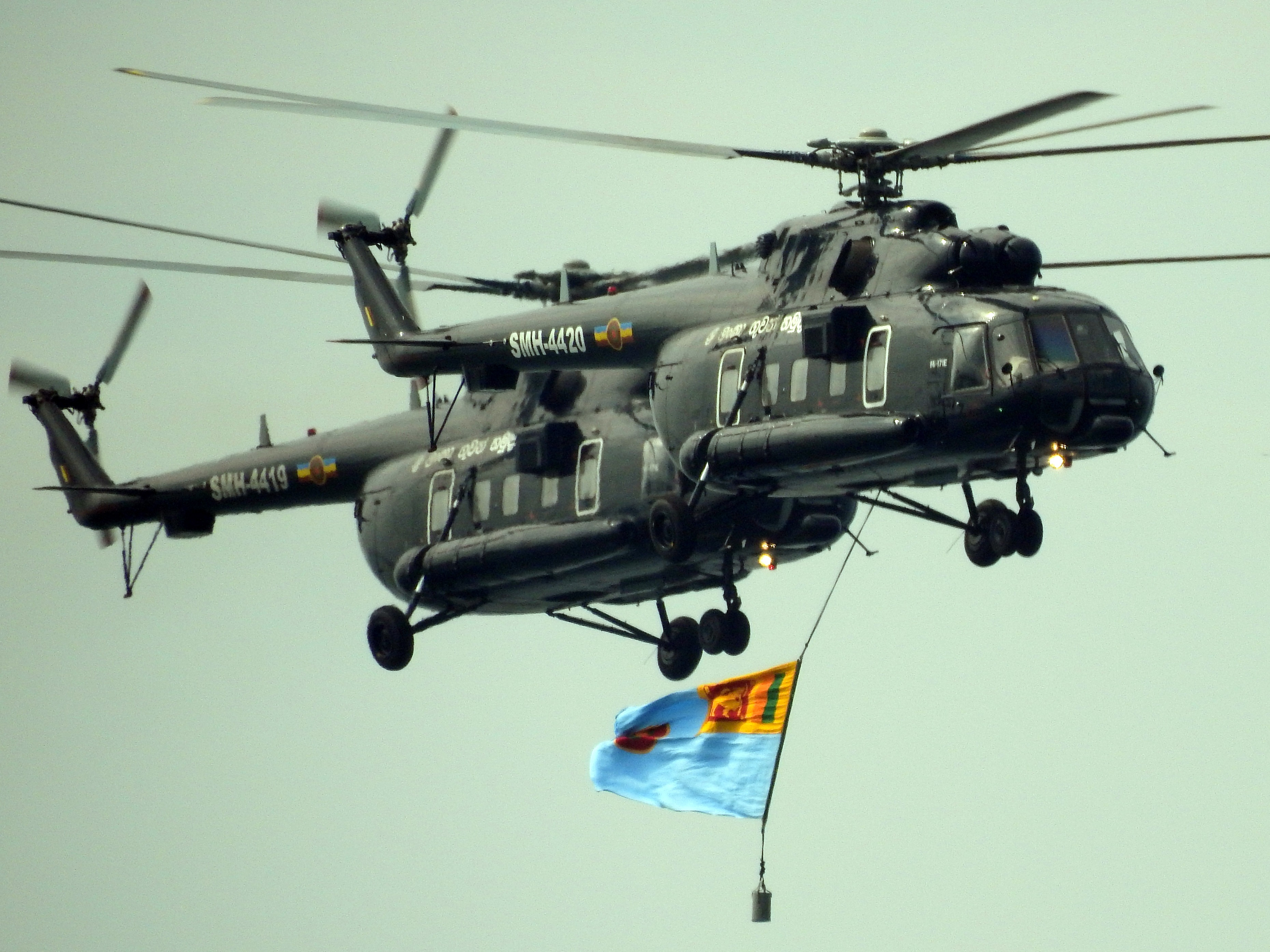 A 2-hour photowalk was conducted during the Independence Day of Sri Lanka (4 February 2019), covering the environment and events near the annual parade held at Galle Face Green. The project mostly covered the Navy and Coast Guard vessels, Air Force aircrafts, and civilian life during that morning.